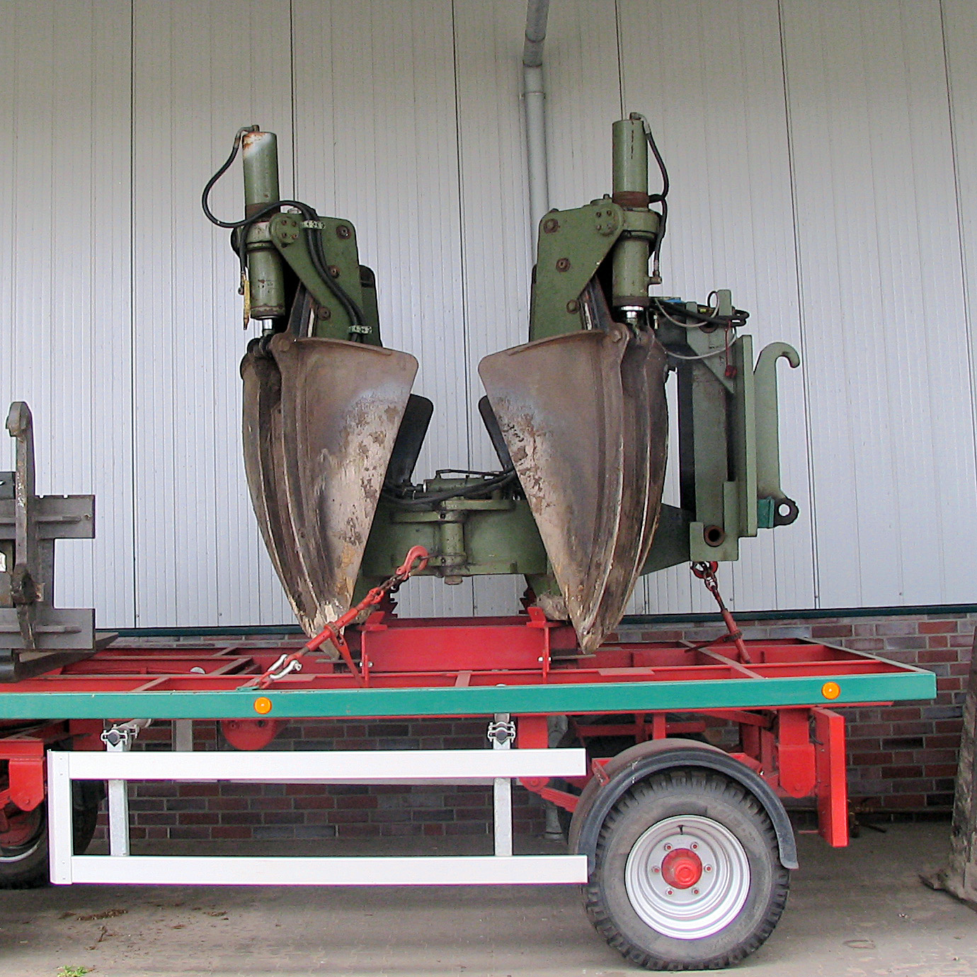 Spades of transplanting machine